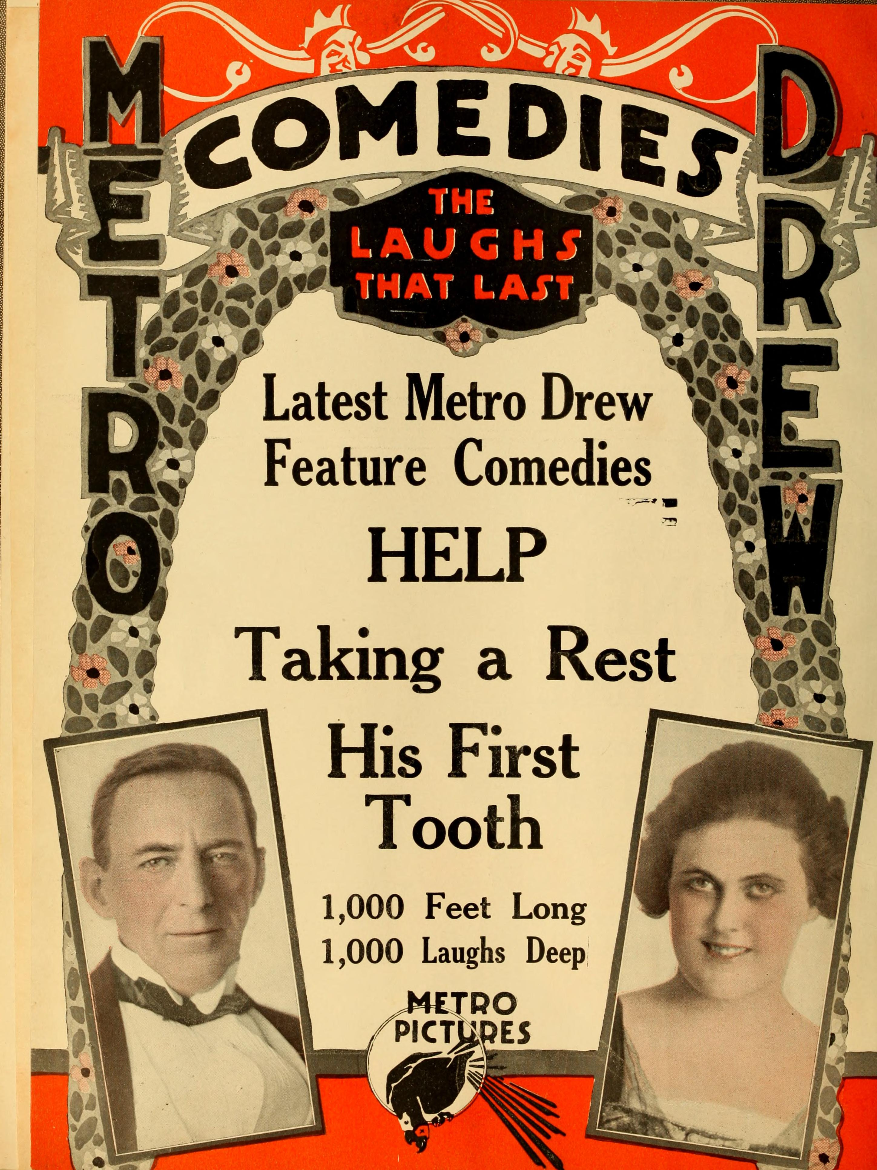 Advertisement in The Moving Picture World